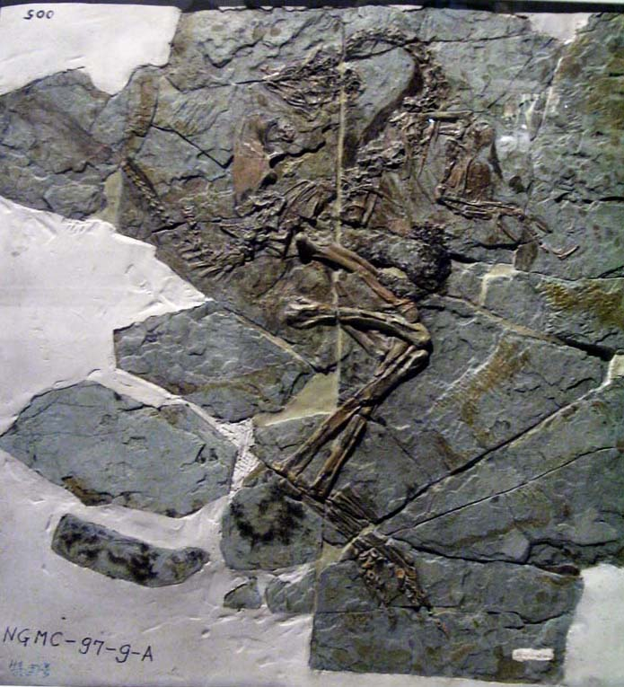 Caudipteryx zoui fossil displayed in Hong Kong Science Museum